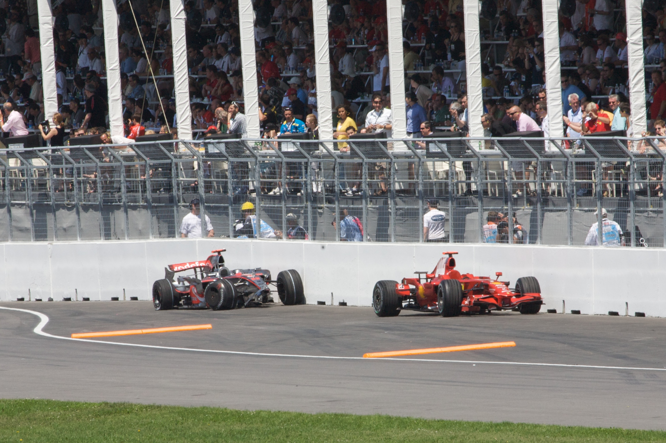 aftermath of the pit-lane shunt